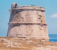 Cap Barbaria defense tower, Formentera Island